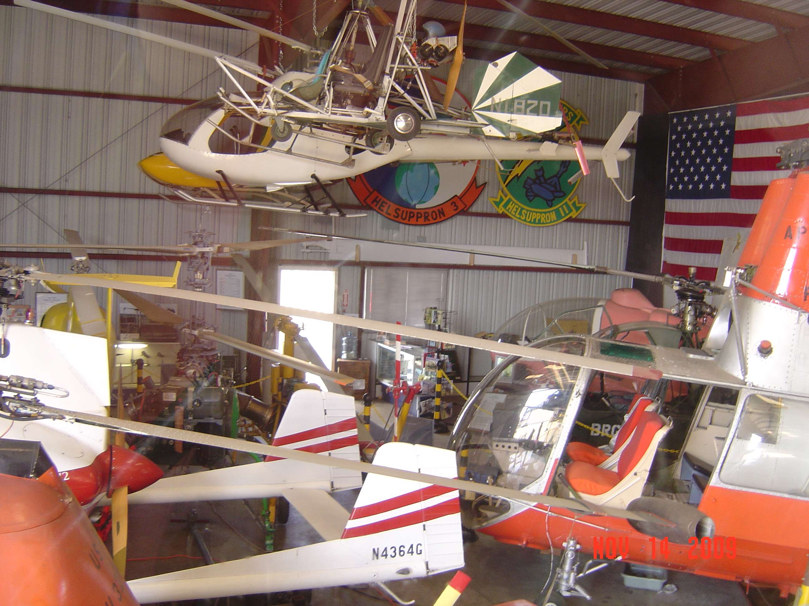 Looking out the window of the H-21 at some of the vintage helicopters at the Classic Rotors Museum Hangar.